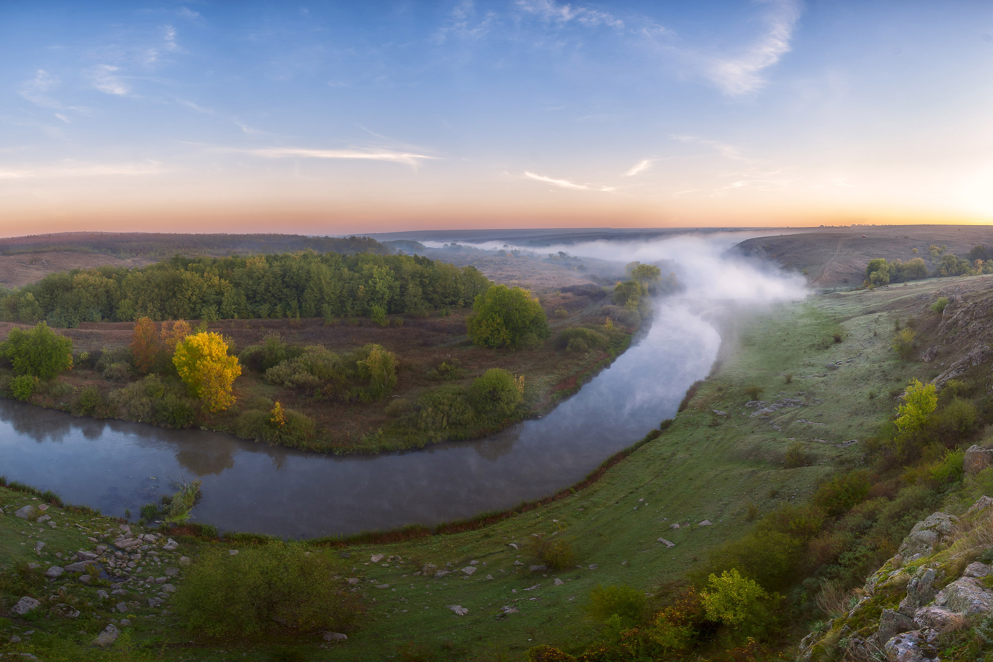 A view at Kalmiussky Reserve in Ukraine